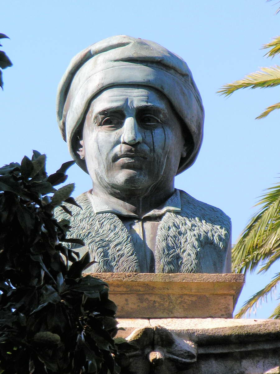 Bust of sculptor Felipe de Castro (c.1711–1775) made by Juan Sanmartín y Serra (1830-1898) in 1883. Publish by= Luis Miguel Bugallo Sánchez.